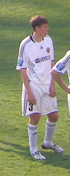 Dmytro Nevmyvaka, defender for Metalurh Zaporizhya